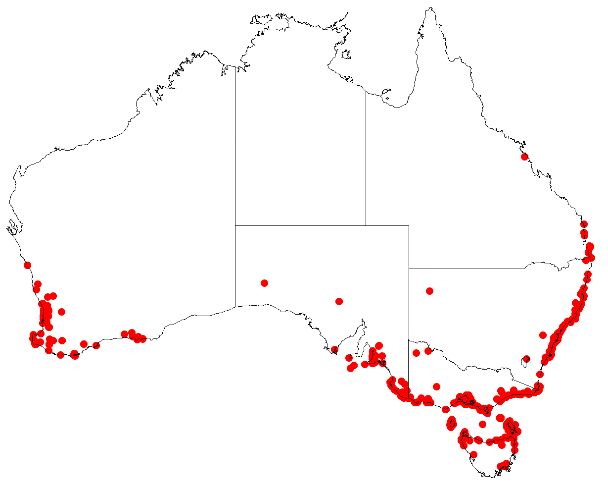 Leptospermum laevigatum occurrence records downloaded fromAVH on 16 August 2018